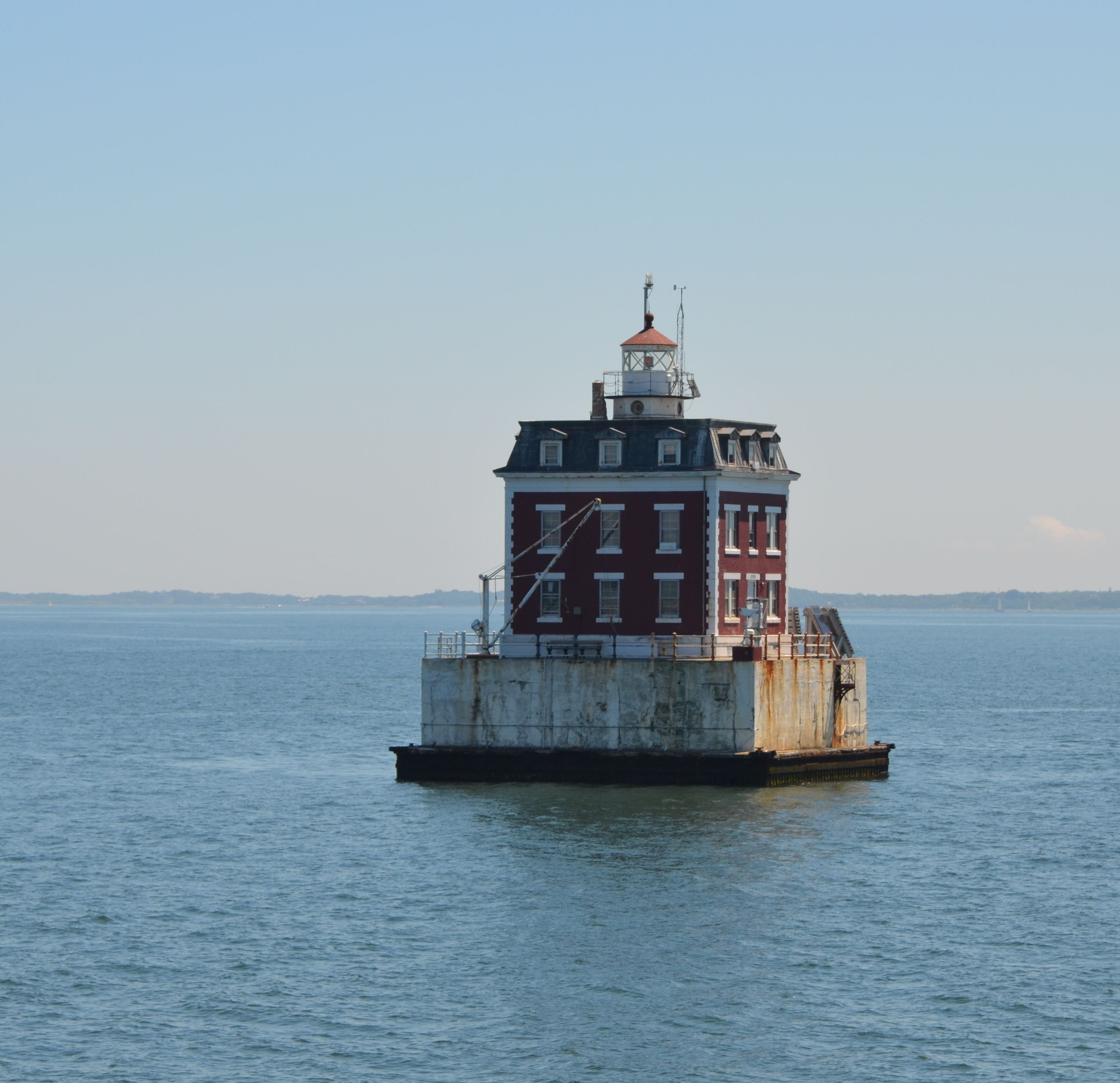 This beautiful lighthouse sits out in Fishers Island Sound in Connecticut.